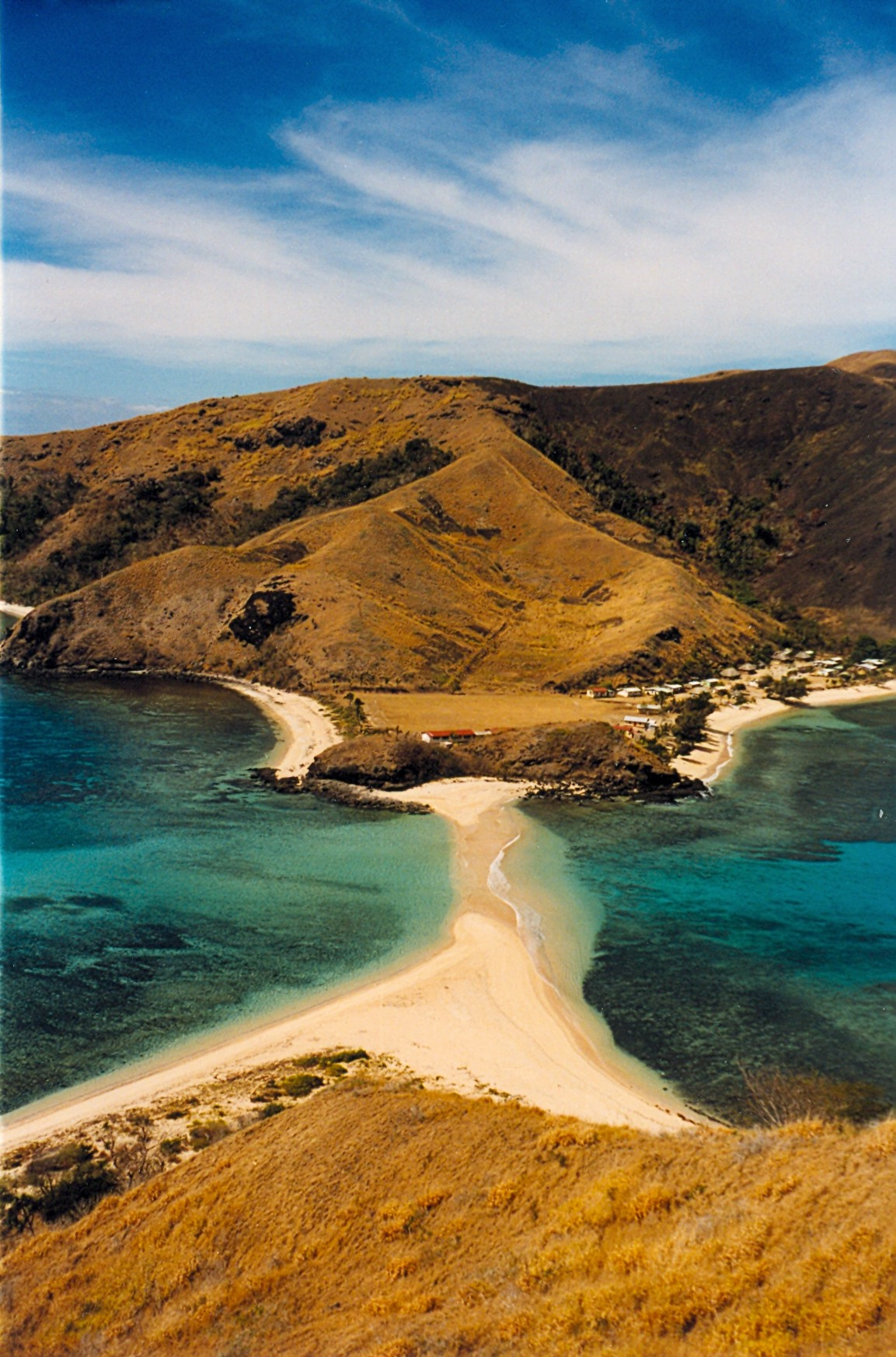 The islands of Waya and Wayasewa connected by a tidal sandbar, Yasawa Group, Fiji.